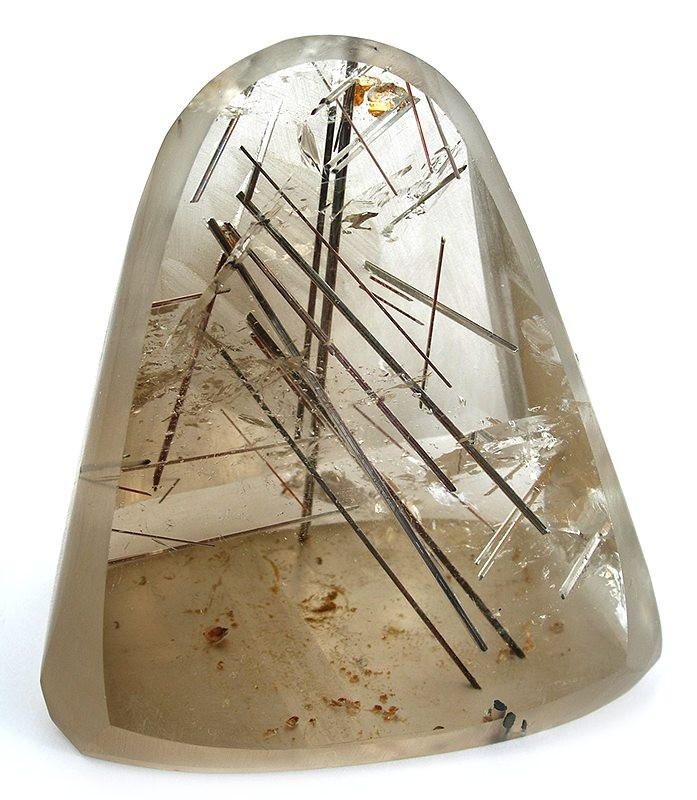 Quartz, Rutile Locality: Minas Gerais, Southeast Region, Brazil (Locality at ) Size: 5.8 x 5.2 x 2.7 cm. A polished section of a rutilated quartz crystal showing unusually individual and robust rutile crystals within. From the Cliff Awald Collection(he wrote a pamphlet about inclusions in quartz in the mid-1950s for the Buffalo Museum of Science). Ex. Richard Hauck Collection.